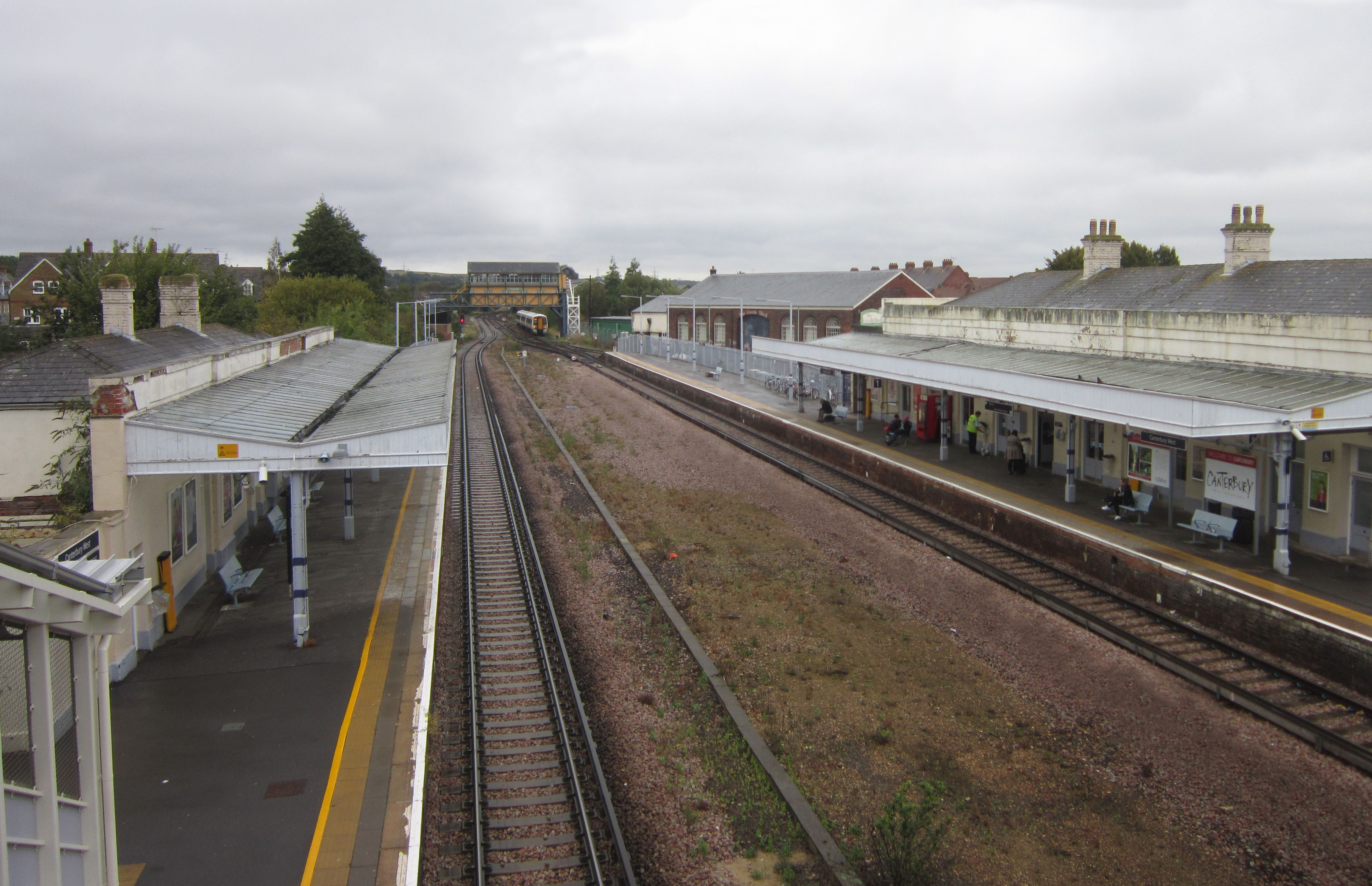 Canterbury West railway station platforms